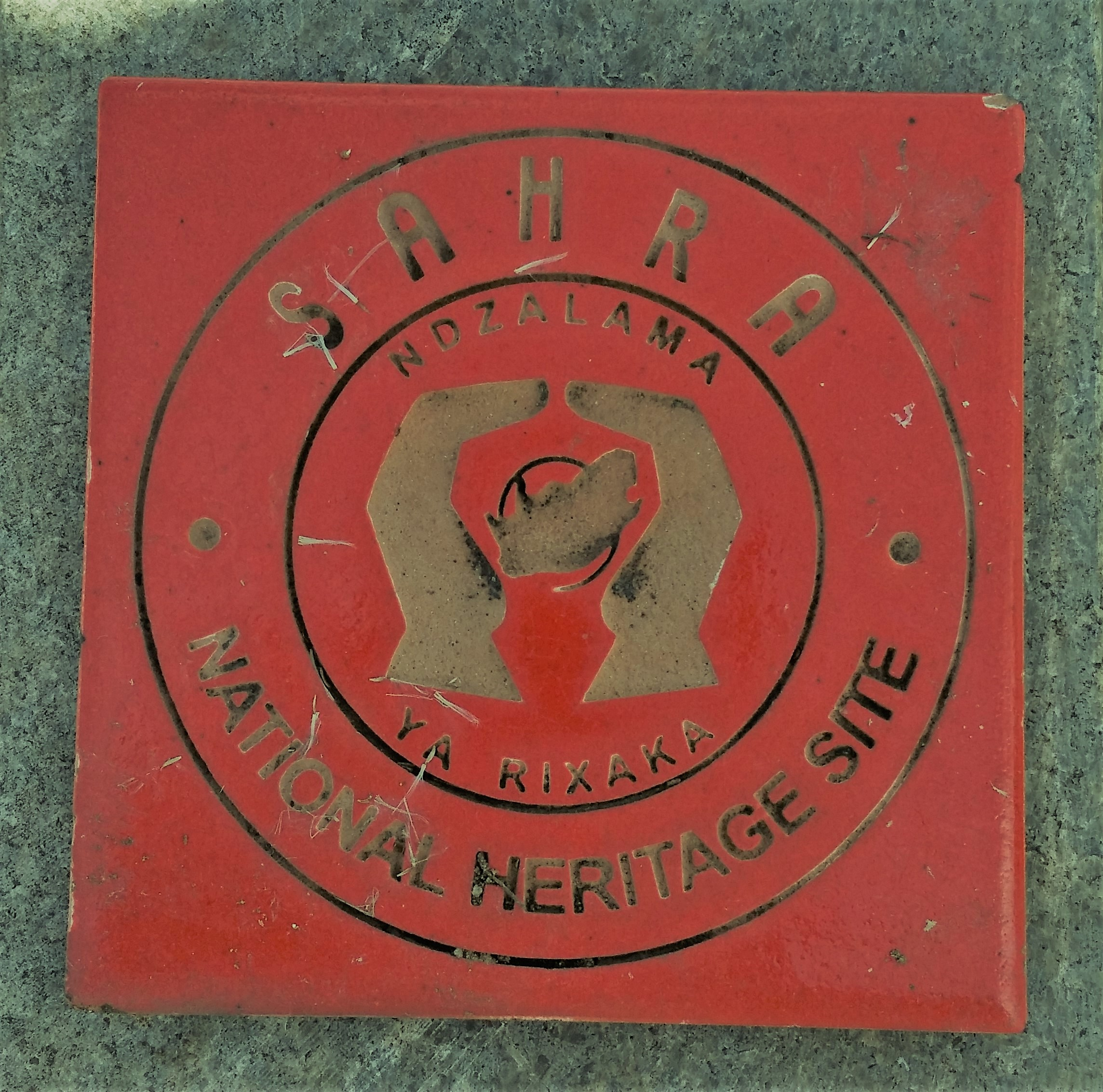 The marker/badge used to show the protected status of the graves of those who died in the Sharpeville massacre on 21 March 1960. The graves are in Phelindaba Cemetery in Sharpeville.